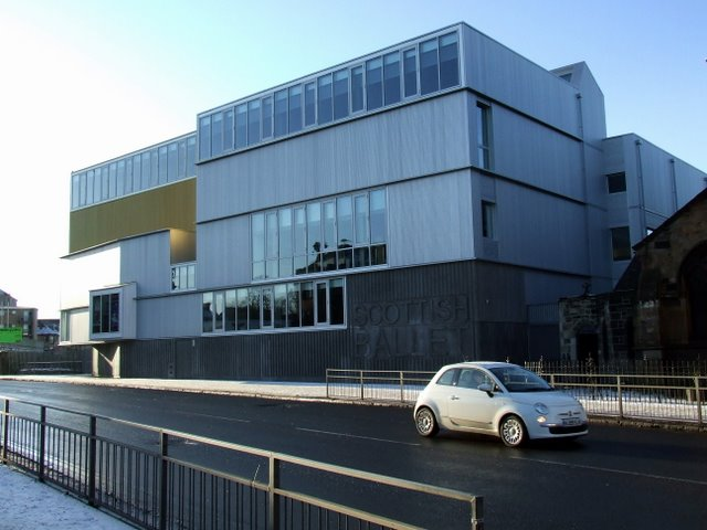 Scottish Ballet The new Scottish Ballet HQ building on Pollokshaws Road at Albert Drive. Designed by Malcolm Fraser Architects. Part of the Tramway Theatre complex.